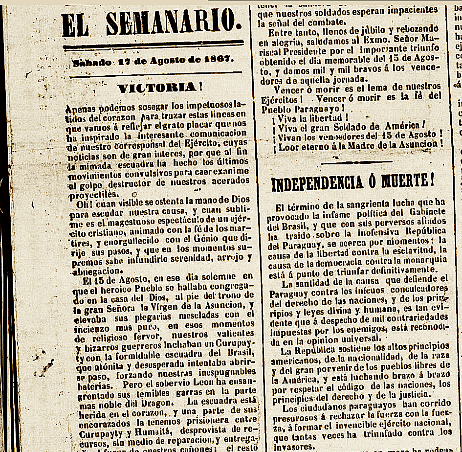 The Paraguayan government newspaper reports the Passage of Curupayty as an important victory over the Brazilian fleet.